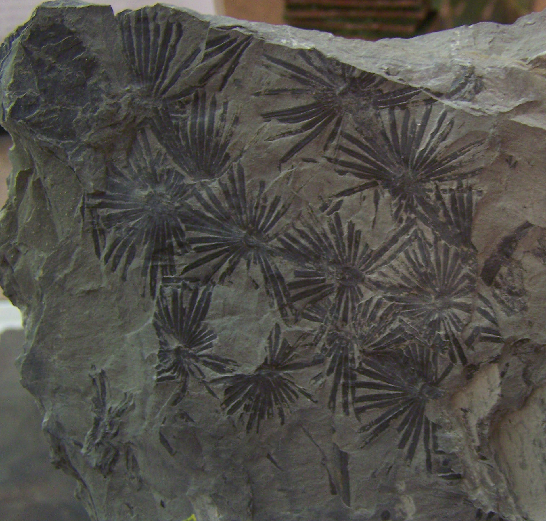 Fossil of the plant species Annularia stellata, Upper-Carboniferous. Collection of the Universiteit Utrecht.